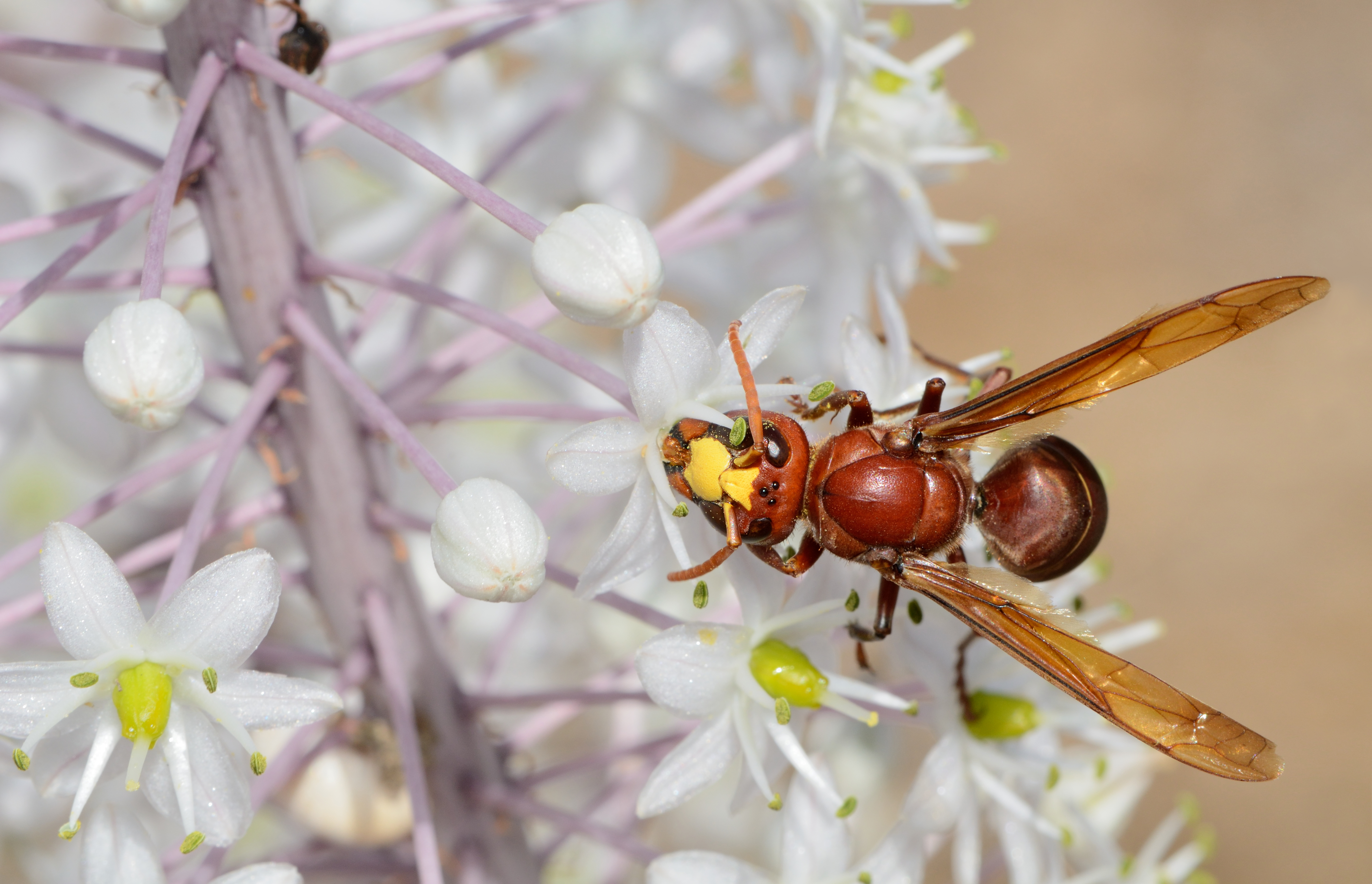 Vespa orientalis collecting nectar and pollinating a flower of Drimia maritima, Sha'ar Poleg Reserve, Israel, September 16, 2013.